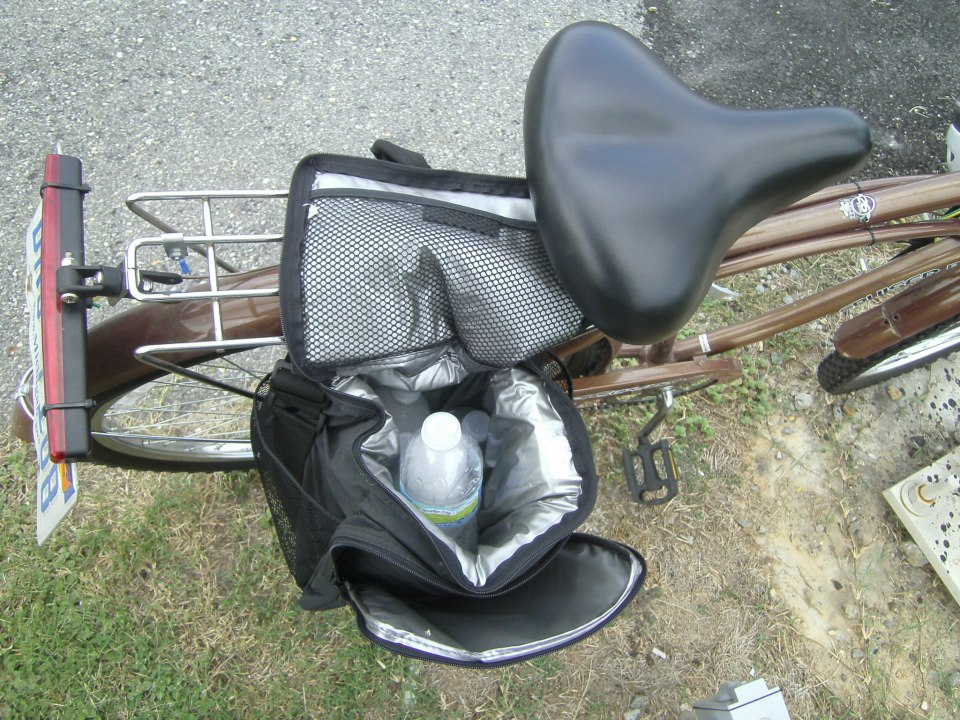 a makeshift bicycle saddle bag for bottled water.